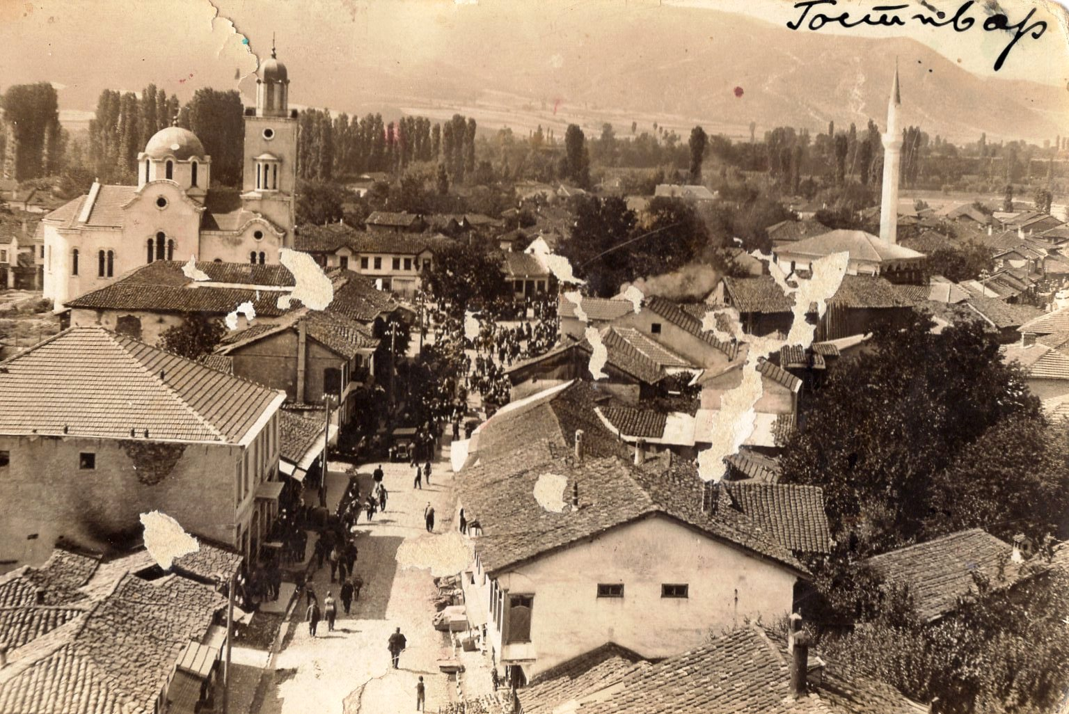 Postcard of Gostivar, from 1928 This media file is produced by Wikipedian in Residence in Category:Wikipedian in Residence at DARM in 2016.